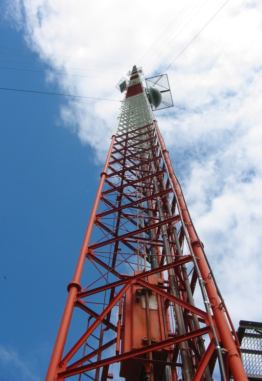 The WOI Tower, just south of Alleman, Iowa.